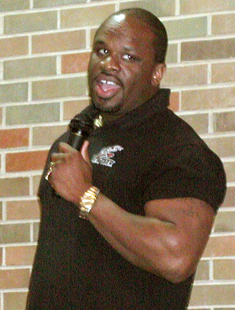 Brother Devon at a WWF signing in Illinois in June 2002.